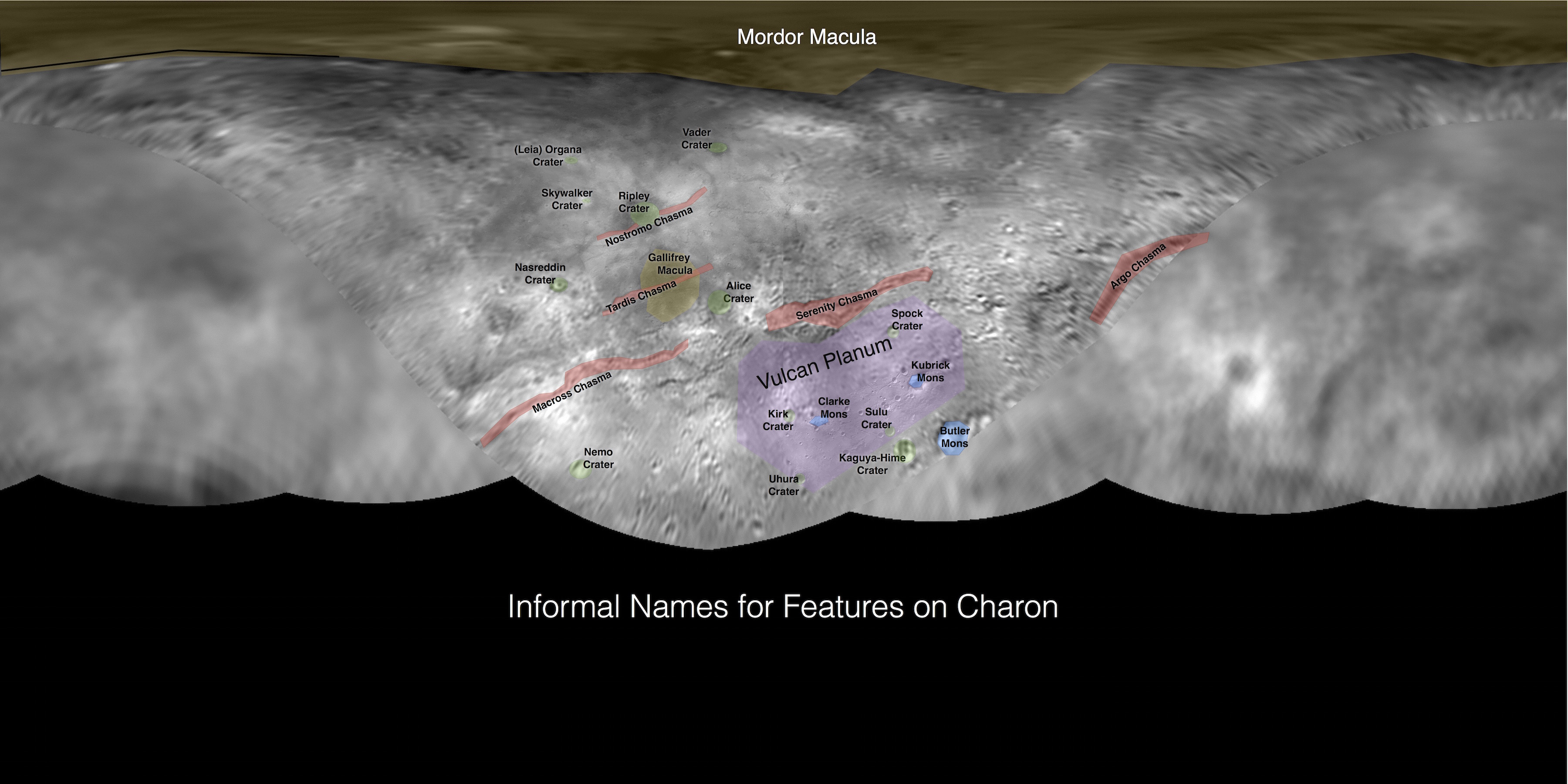 Original description This image contains the initial, informal names being used by the New Horizons team for the features on Pluto’s largest moon, Charon. Names were selected based on the input the team received from the Our Pluto naming campaign. Names have not yet been approved by the International Astronomical Union (IAU).